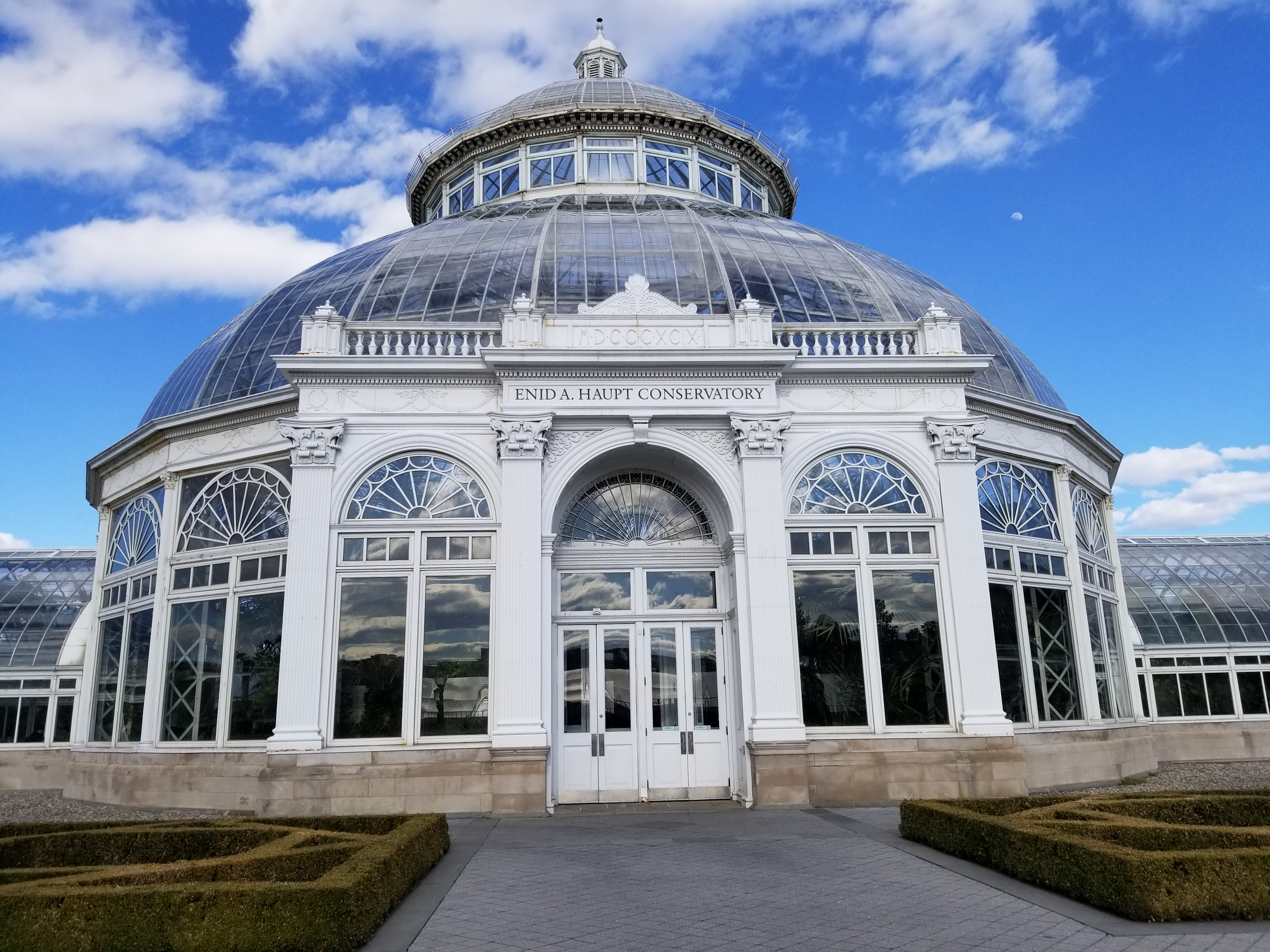 Haupt Conservatory, Mar 2019